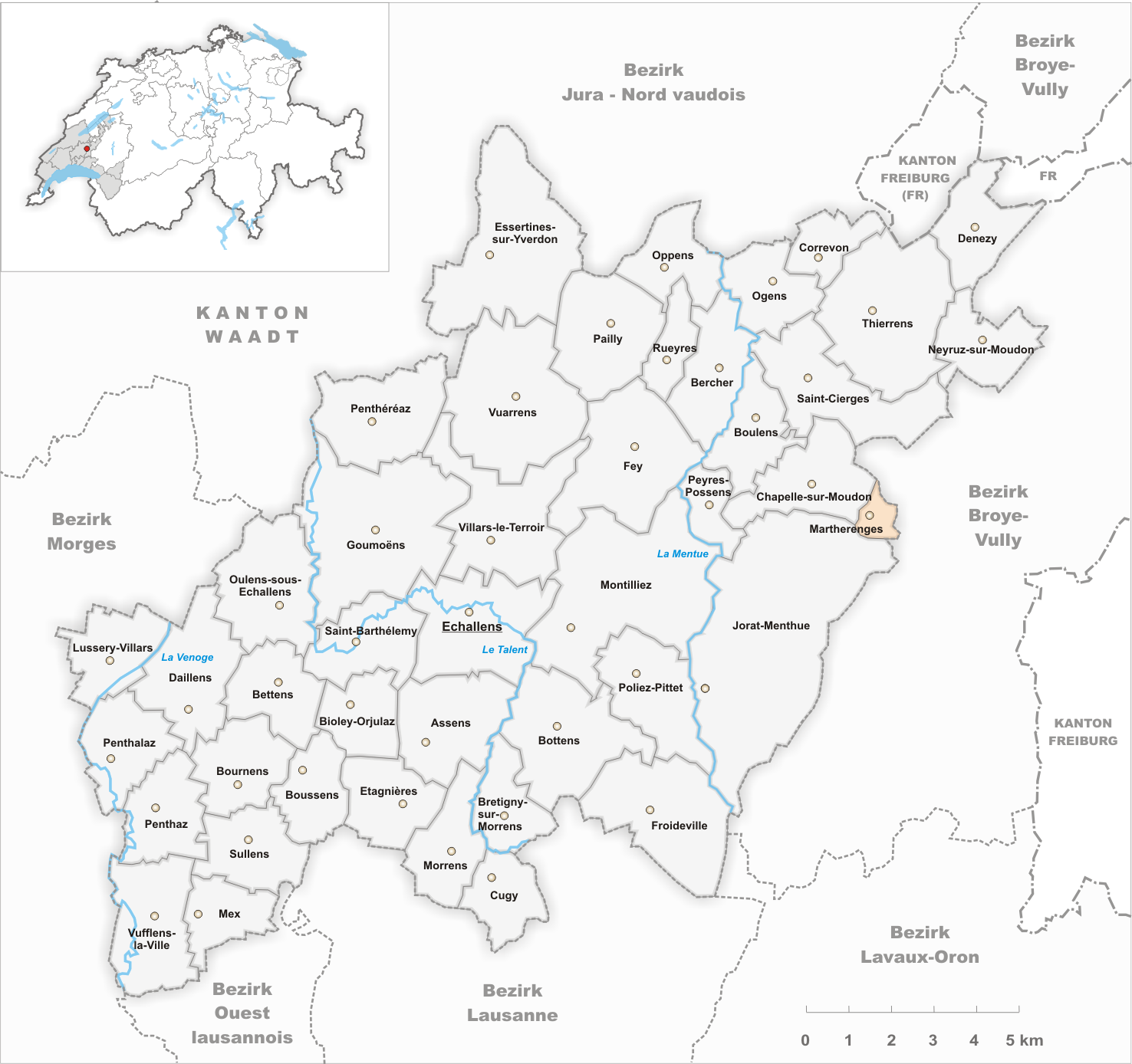 Municipality Martherenges